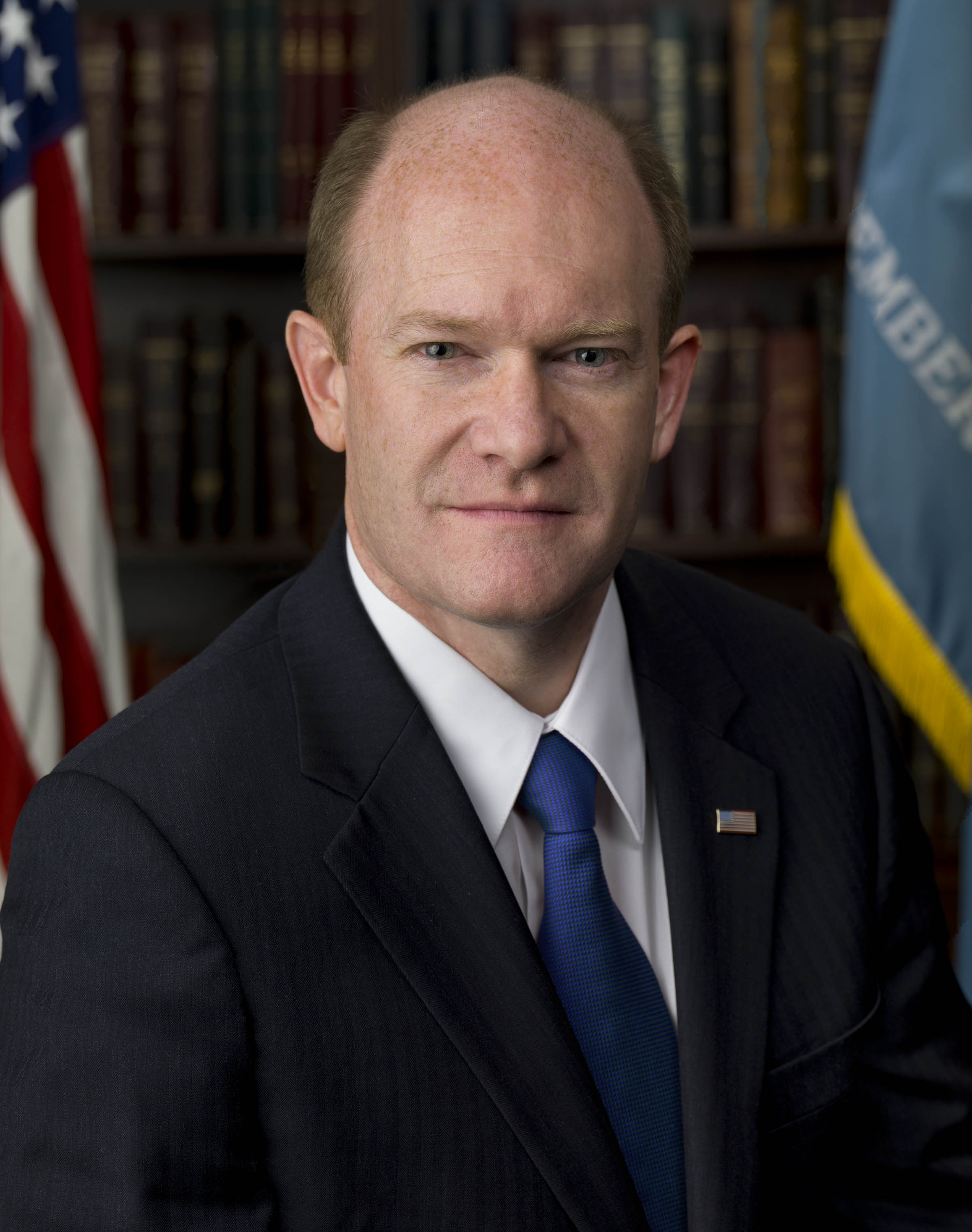 Official Senate photo of Senator Chris Coons (D-DE)